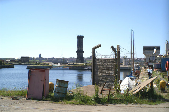 Across Collingwood and Salisbury Docks towards the Victoria Tower. The eight-sided clock on the banks of the Mersey. Construction has begun on the building of a new canal across Liverpool Pier Head so that boats from the canal system can sail south from here through the northern docks to the southern docks.